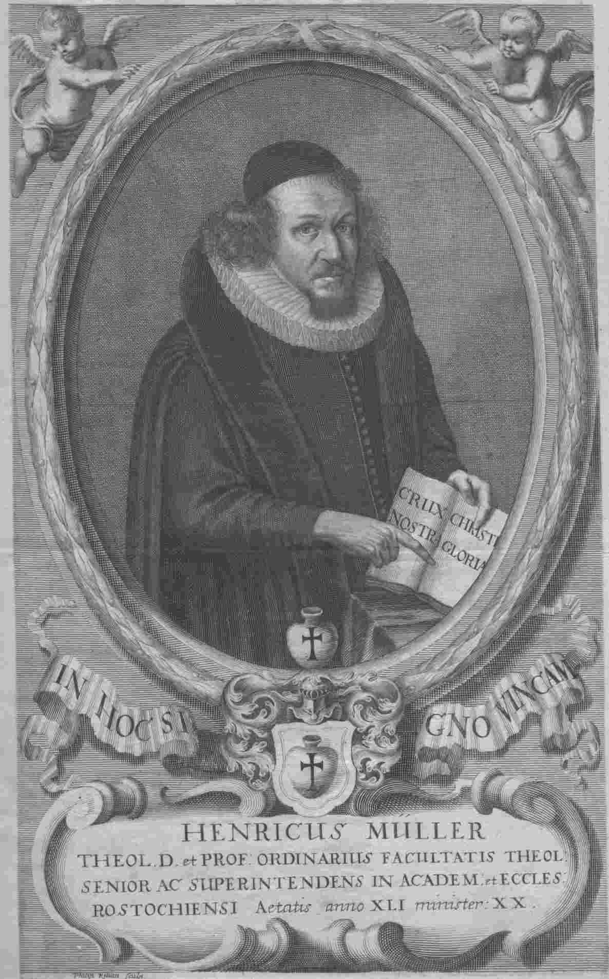 Portrait of Heinrich Müller, copper engraving 318x194 mm